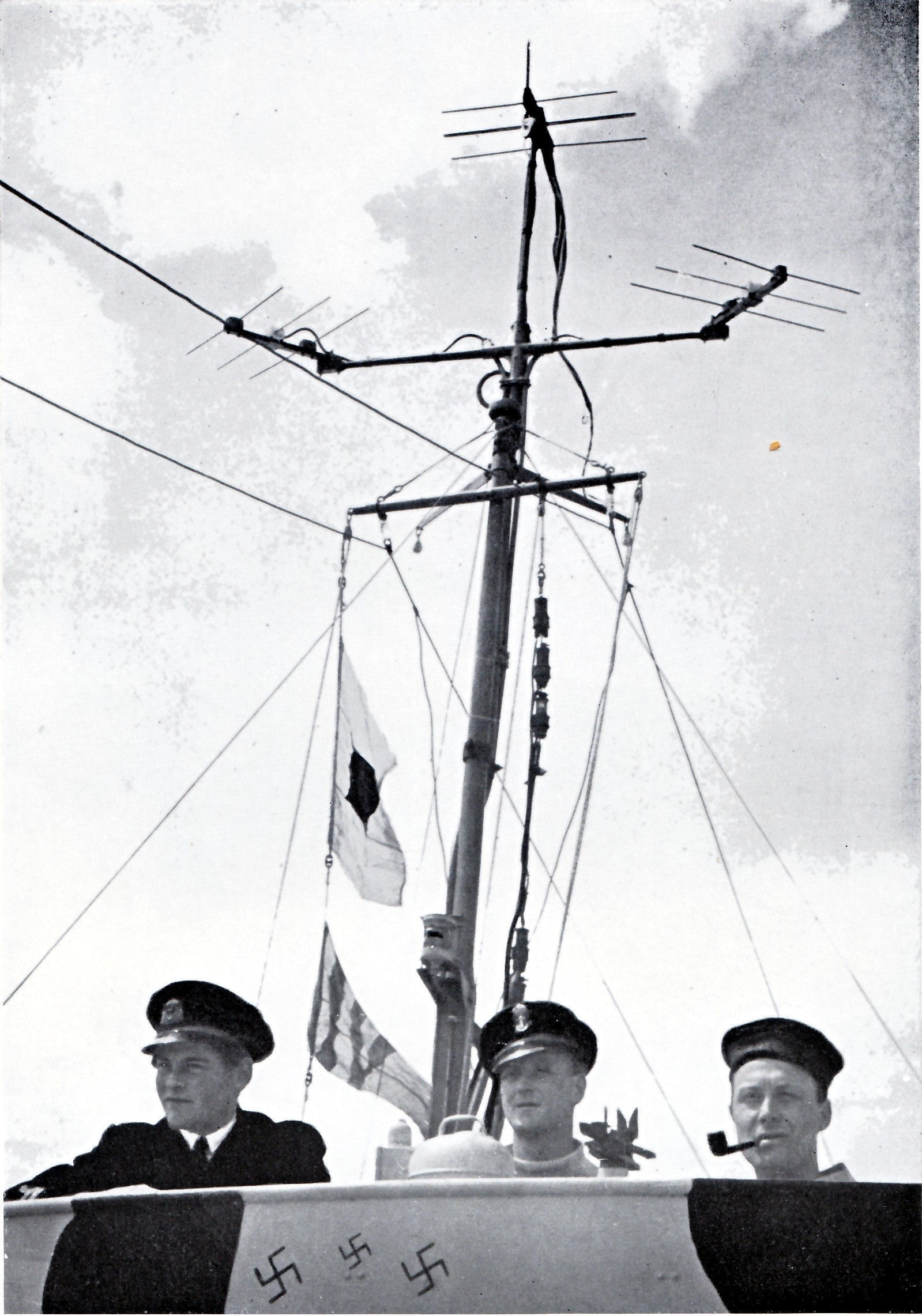 Norwegian Motor Torpedo Boat "with three kills" during World War II. Left to right: Axel Prebensen, Sverre Gjelsten, and Edwin Slater.